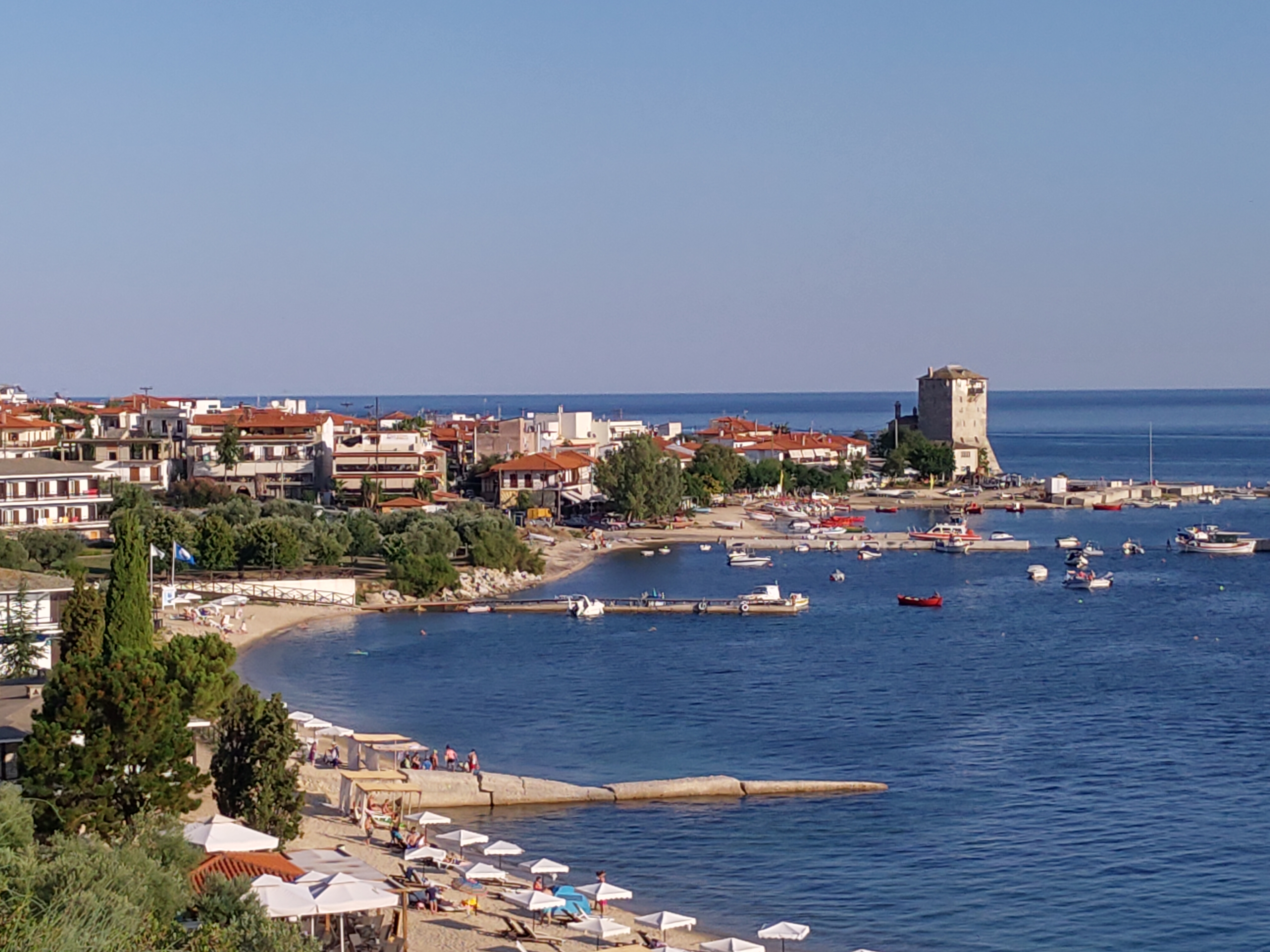 Ouranoupoli (Ouranopoli), Chalkidiki, Greece.